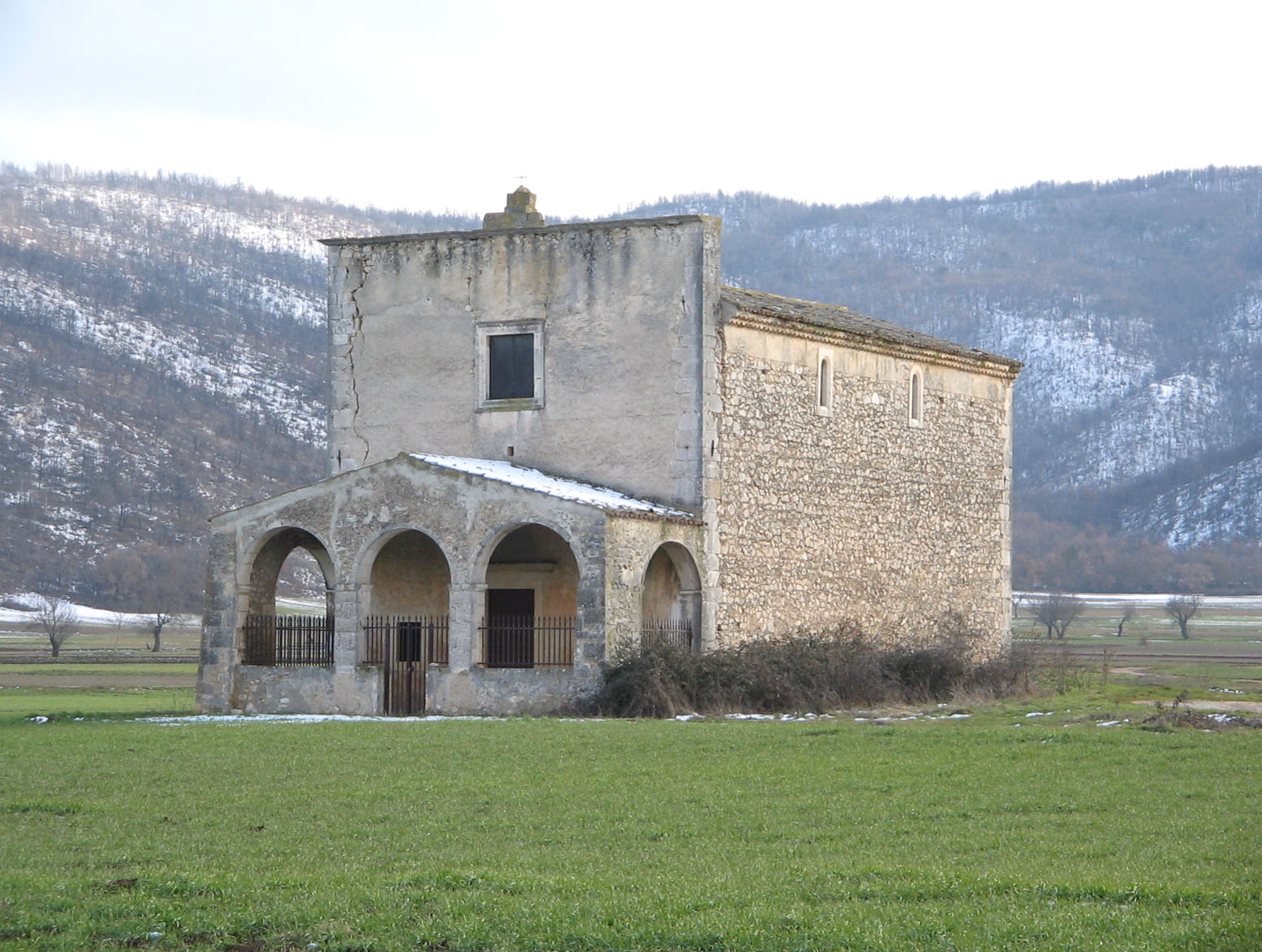 Navelli (AQ): Church of Madonna del Campo